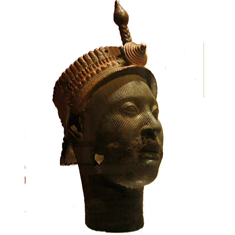 British Museum Bronze Head from Ife is one of eighteen objects that were unearthed in 1938 at the settlement of Ife in Nigeria. It was probably made in the 12th Century AD